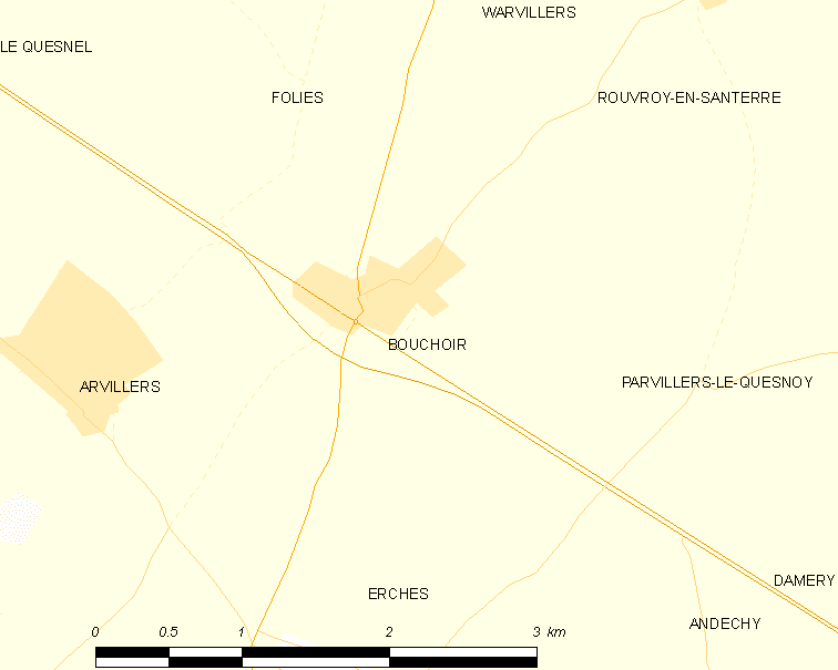 Map of French municipality Bouchoir